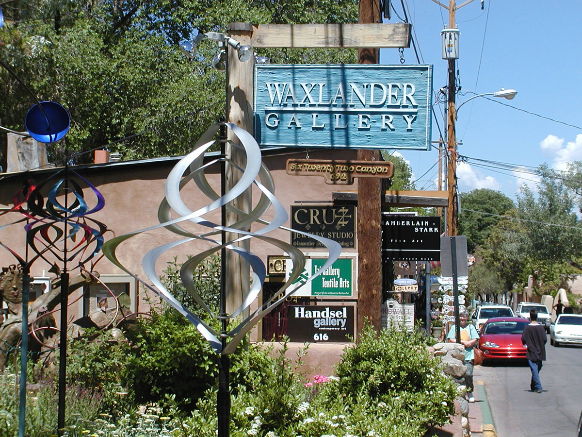 Galleries, Canyon Road in Santa Fe